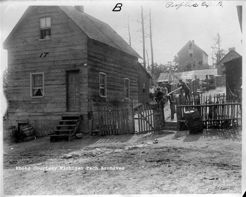 The original image is now located in Hanchette & Lawton Case Files on the Copper Miners' Strike (MS-854): Box 1, Folder 27.